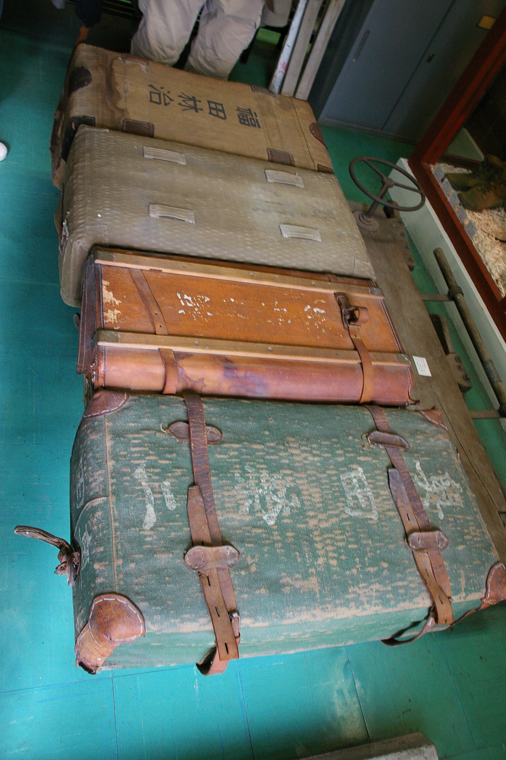 Imperial Japanese Army march wicker portmanteau.